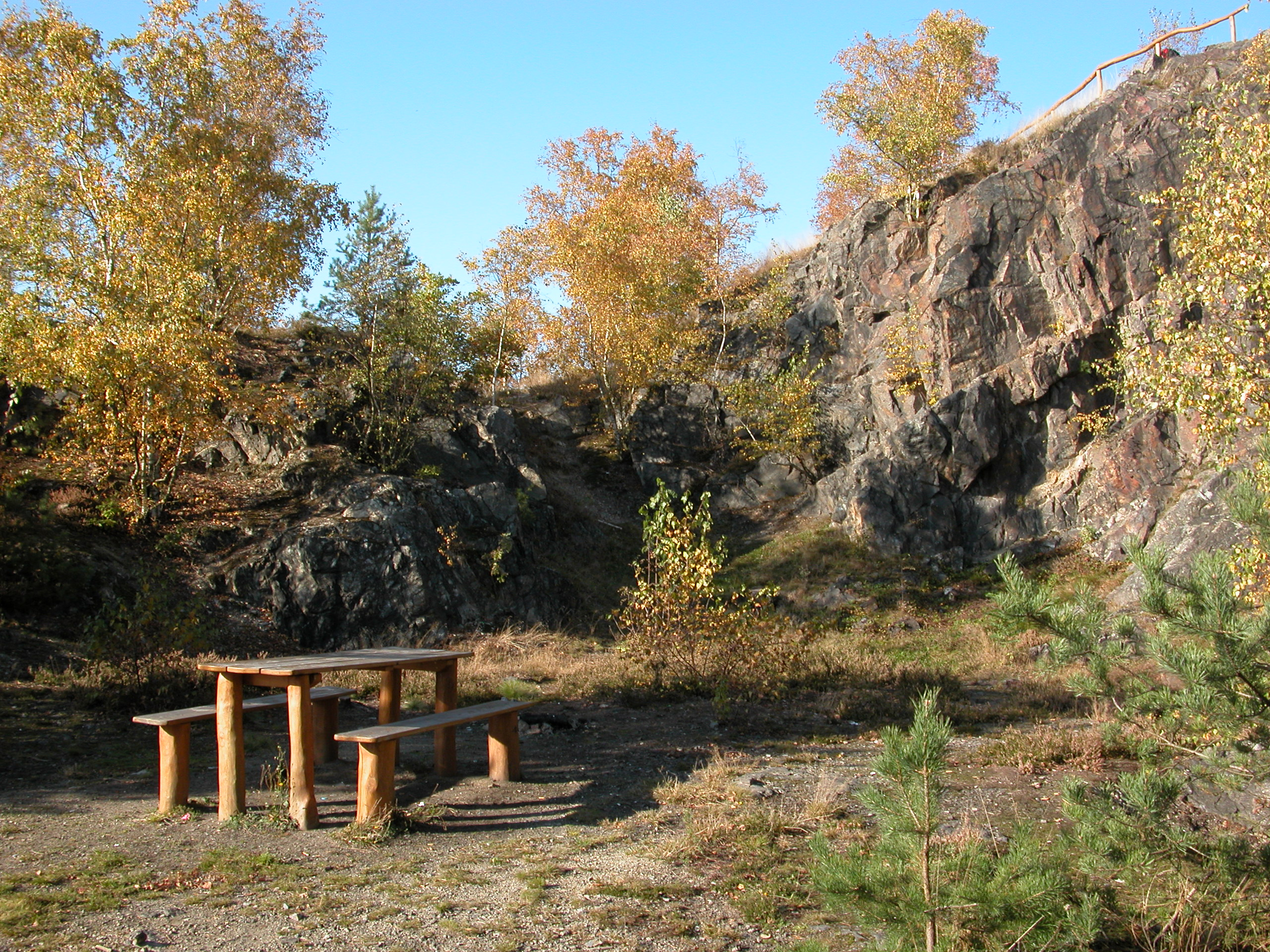 Kremenac hill in the Brasy village, place for the rest.